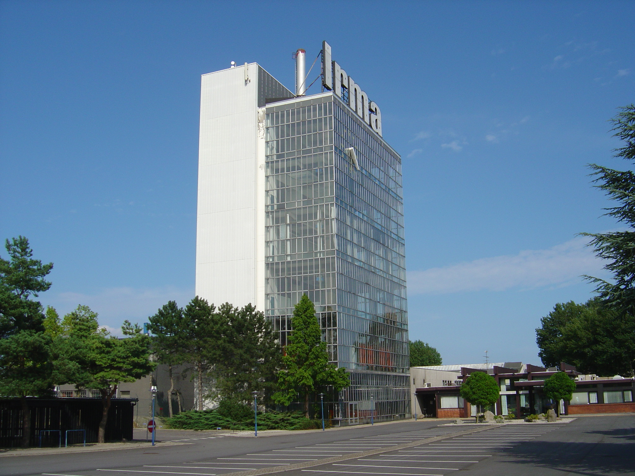 Irma Center - Head quarters for the company Irma located in Rødovre near Copenhagen. Seen from the southwestern side of the area.